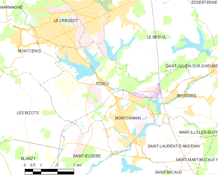 Map of French municipality